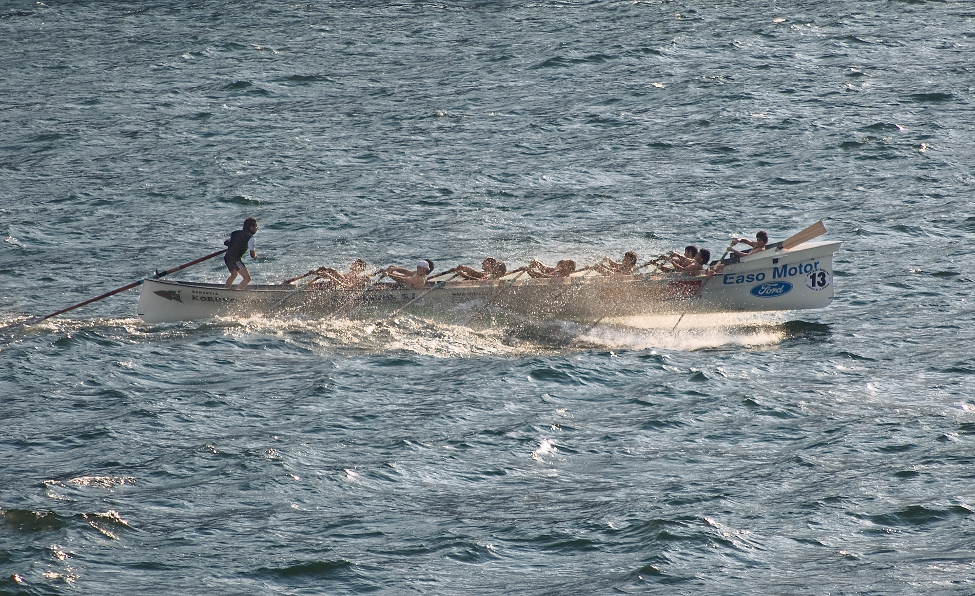 Classification run for the Flag of La Concha competition. The seven best times classificated for the race held on the first two weekends of September 2007. This team is Ur Kirolak, from Donostia, which with a time of 23'49.88" did 21st.